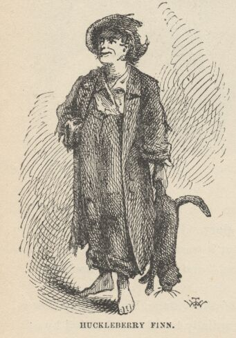 Illustrations de The Adventures of Tom Sawyer, 1876.